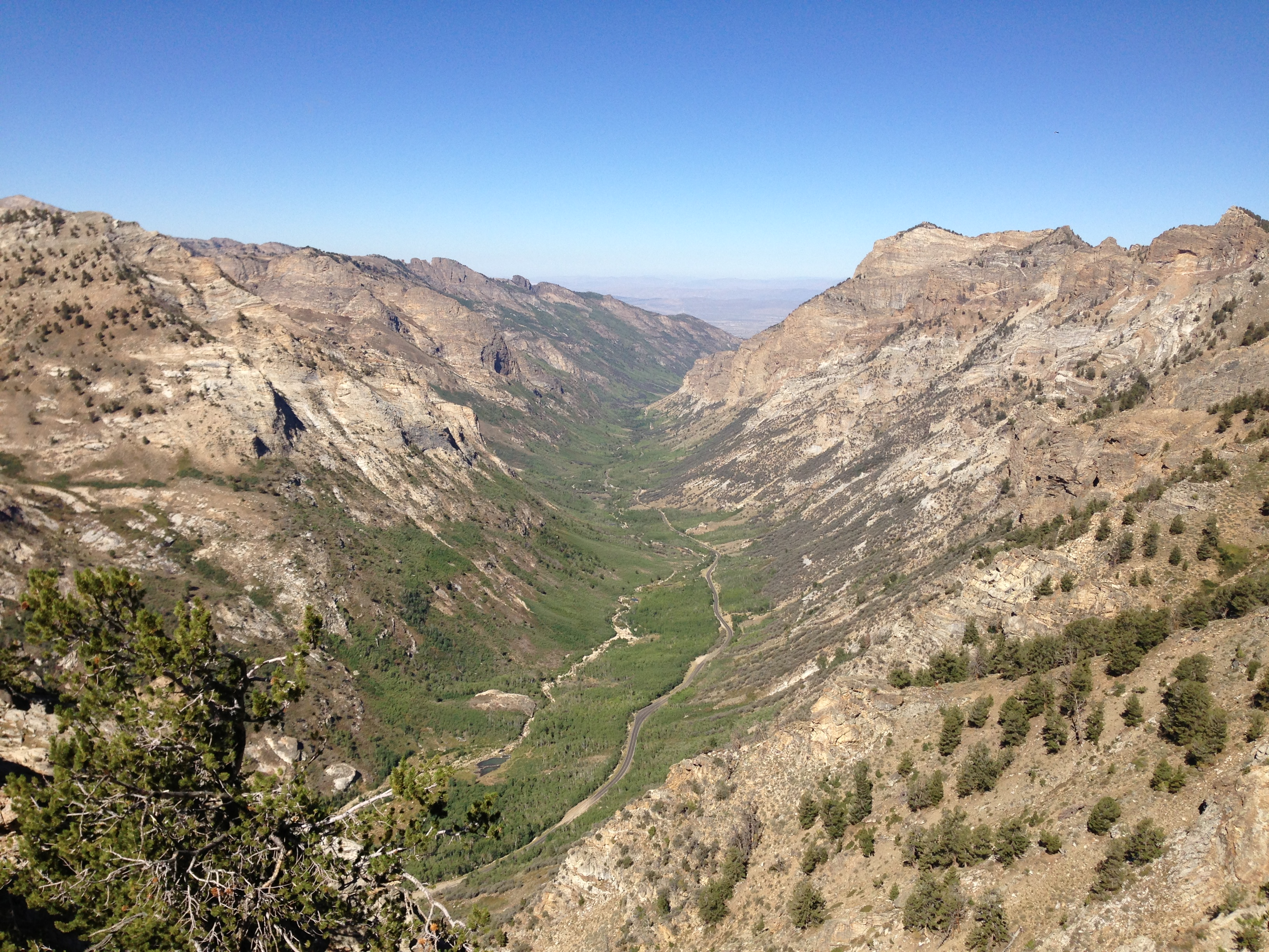 View down Lamoille Canyon from 10000 feet along the route to Verdi Peaks from Terraces Picnic Area in Lamoille Canyon on the morning of September 9th 2013